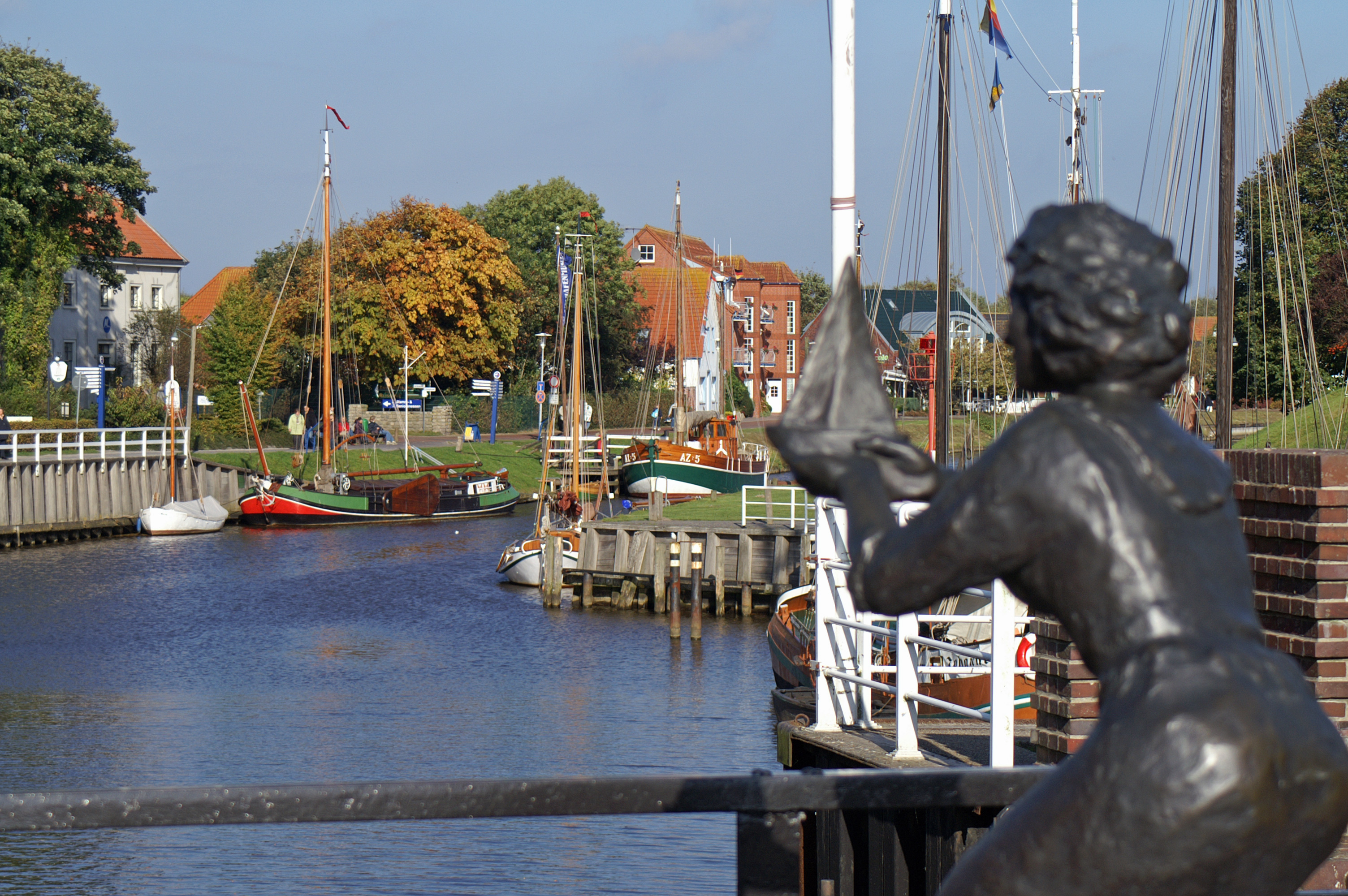 Caroline in Carolinensiel. Zur Erinnerung an den Begriff "Cliner Wind", 2005 Bildhauer:Petersen & Petersen, Esens [1] Date: 2005-10-18 photographer: Heidas Wikipedia account All pictures Please use this discussion page